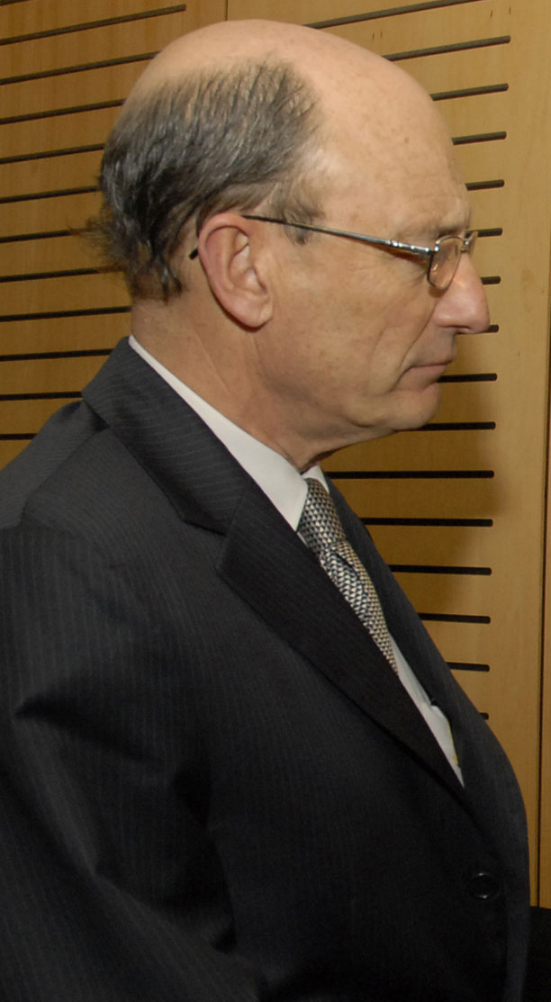 Juan Emilio Cheyre.